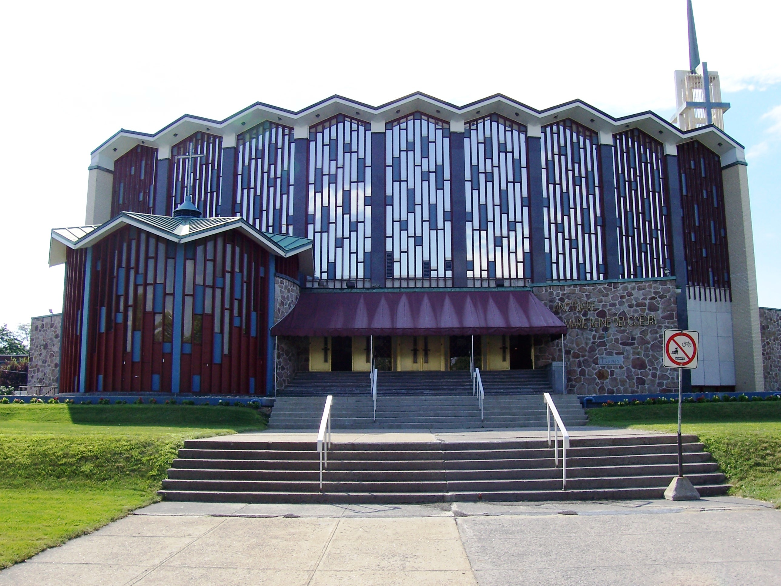 Photo of a Montreal church called "Sanctuaire Marie-Reine-des-Coeurs, taken in July 16 2008.